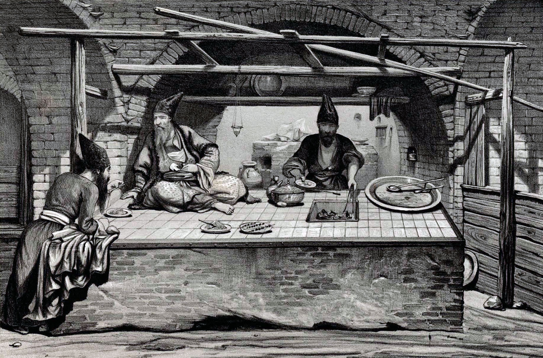 Kitchen Bazaar Tehran